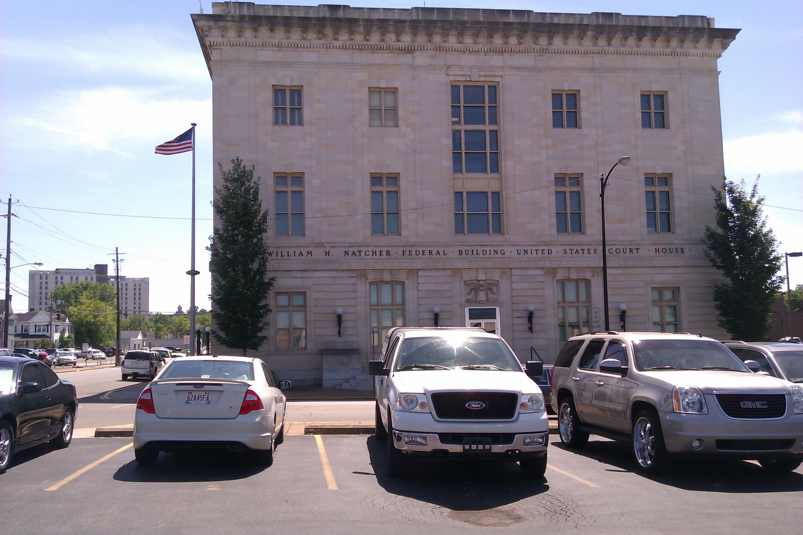 The W.H Natcher Ferderal Building (Bowling Green,KY)